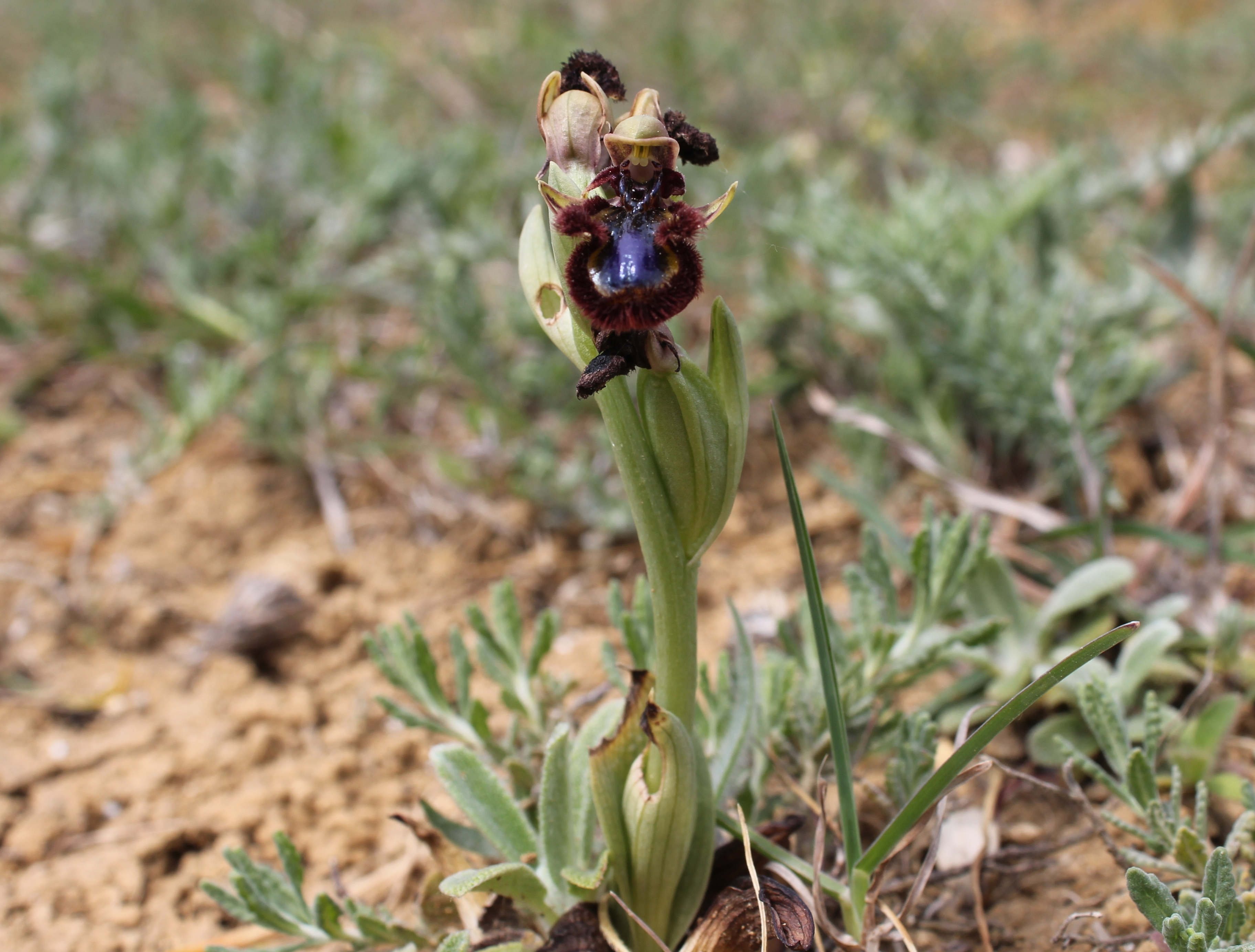 Ophrys speculum general